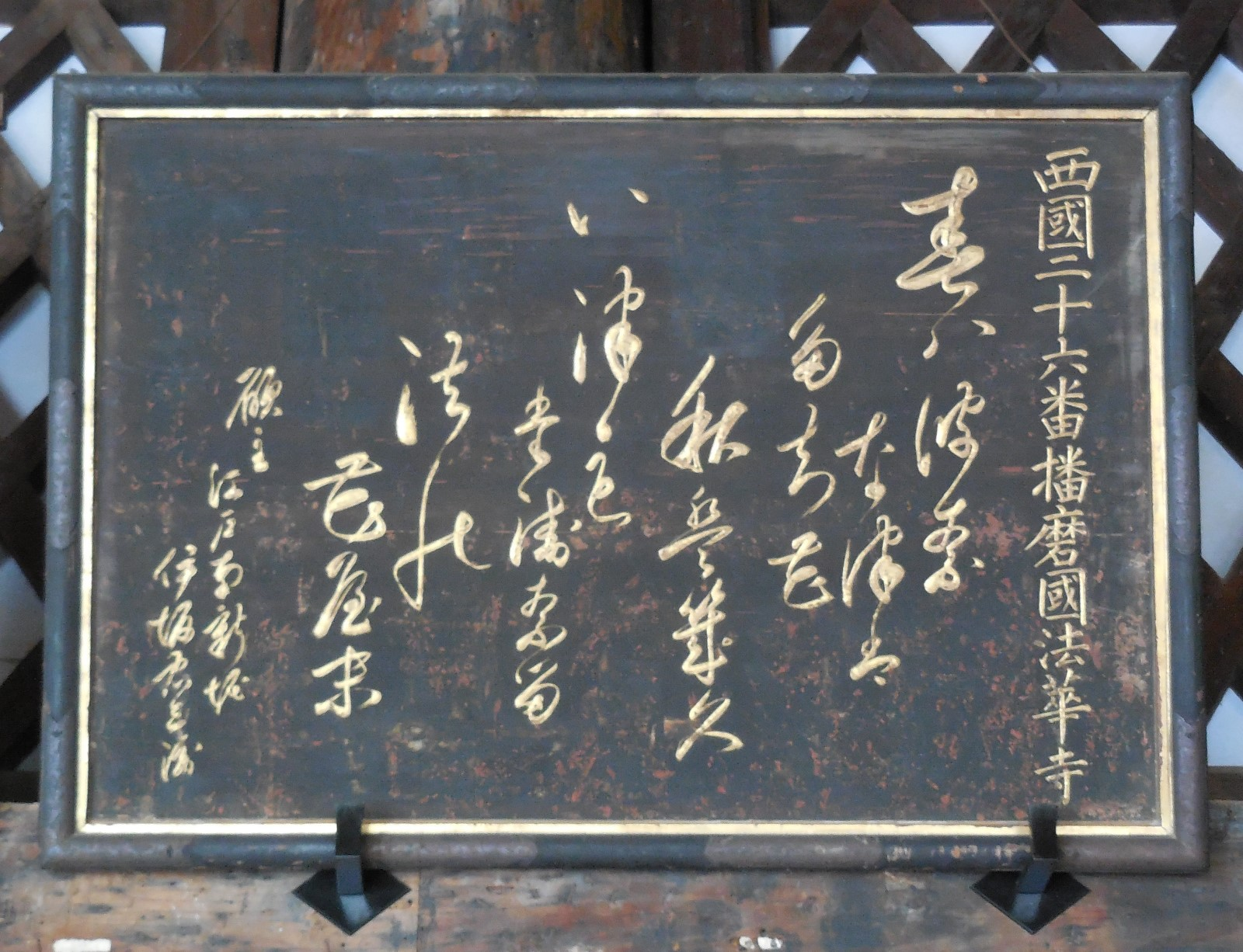 Votiv plate at Ichijo-ji